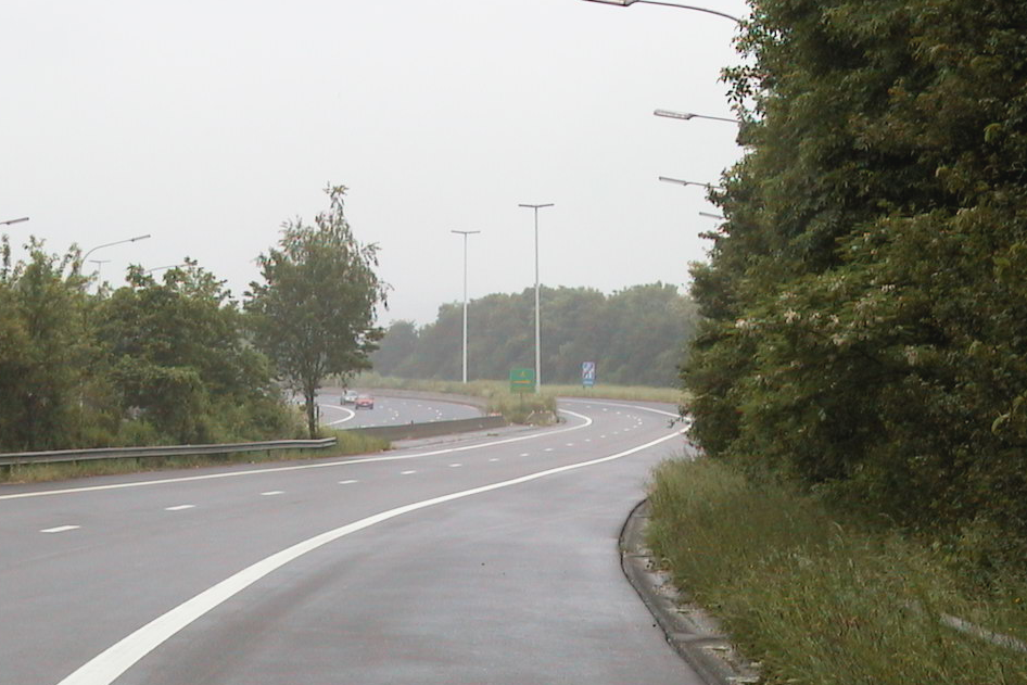 Beginning of A604 motorway in Belgium. Photo at 1km from exit 4